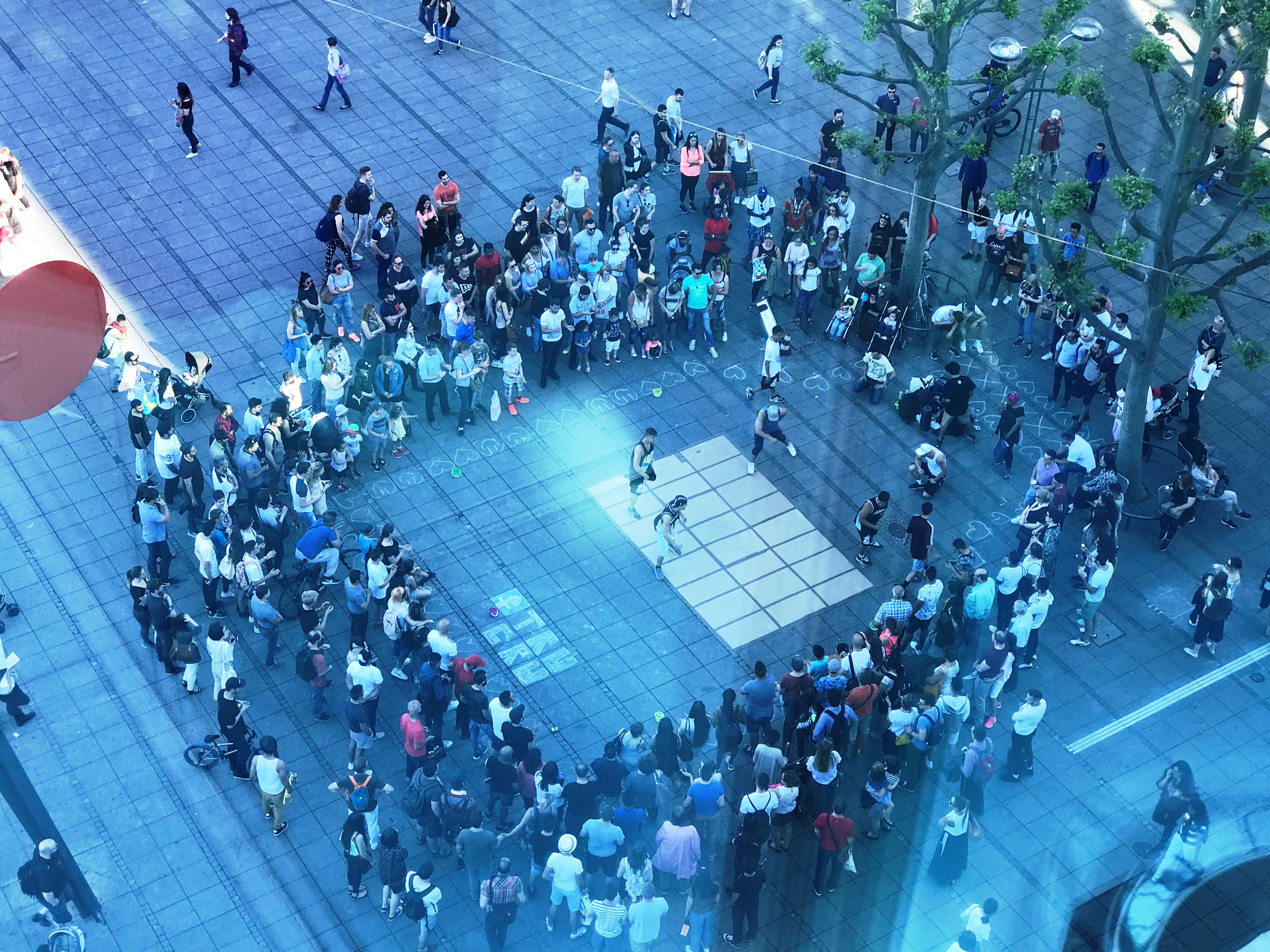 Breakdance Group Tru Cru at Schlossplatz Stuttgart